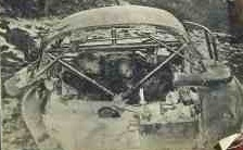 Oscar Cabalén